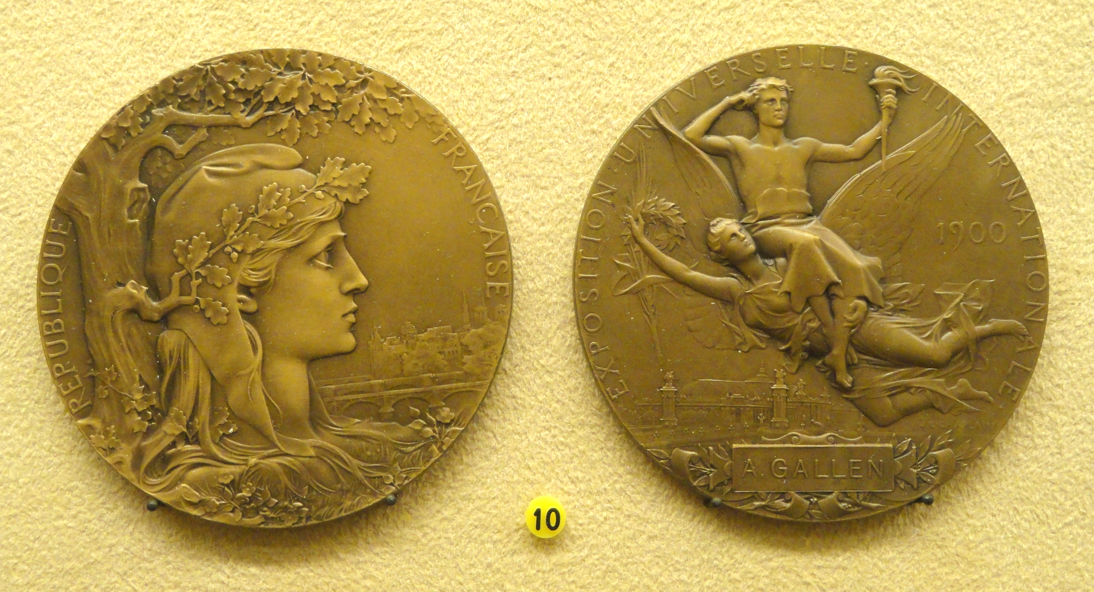 Coin / medal in the National Museum of Finland, Helsinki, Finland. This artwork is in the public domain because the artist(s) died more than 70 years ago.